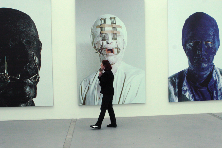 Lentos Museum, "Face It" Gottfried Helnwein one-man show, 2006. Triptych from "Der Untermensch"